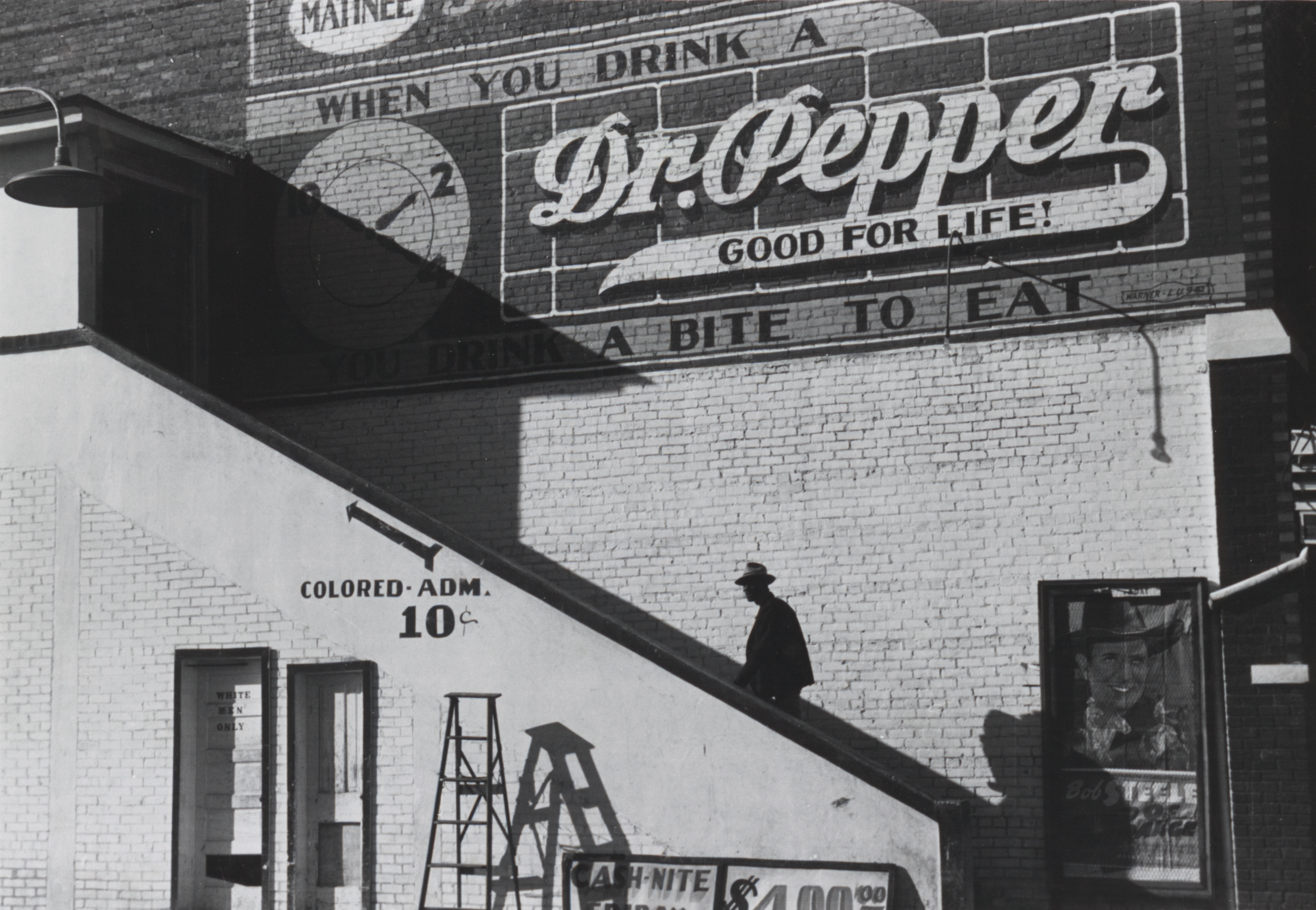 African American man going in "colored" entrance of movie house on Saturday afternoon, Belzoni, Mississippi Delta, Mississippi